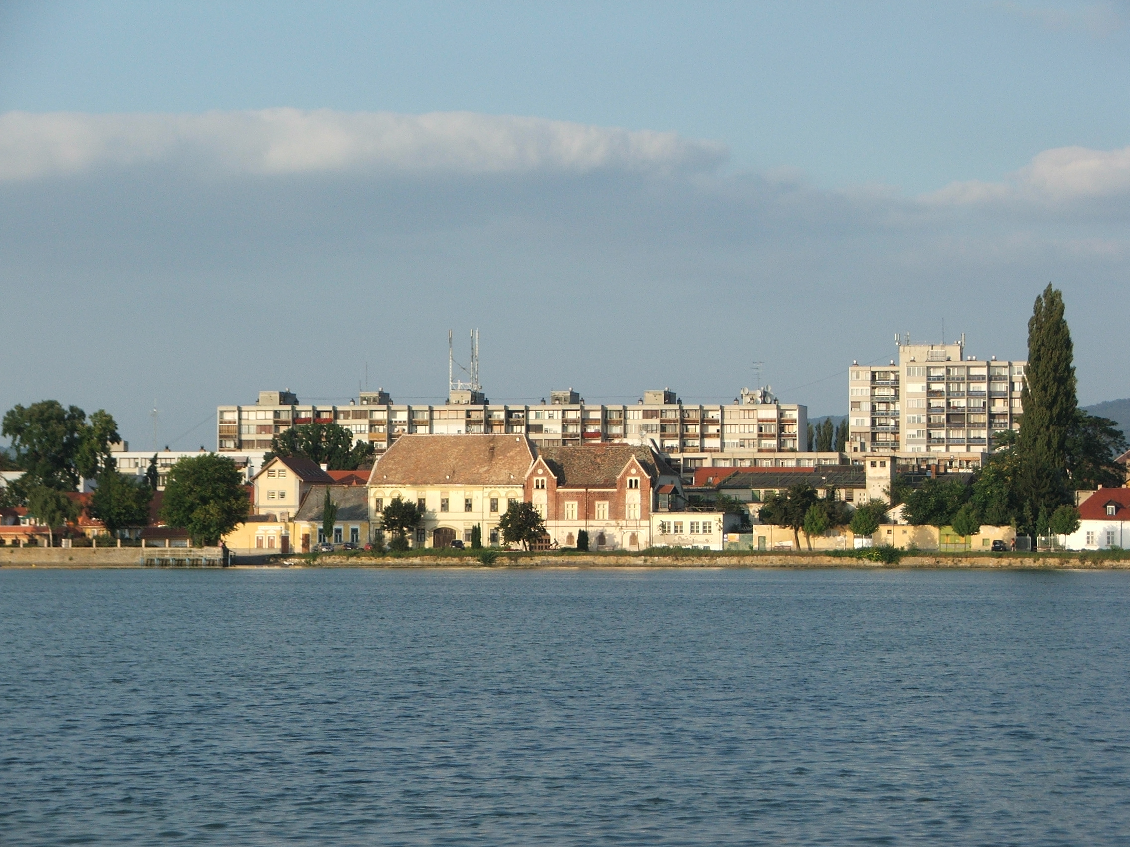 Tóváros beach, house of Hamary and house of Axmann, Tata, Hungary Photo: József Süveg (2005)